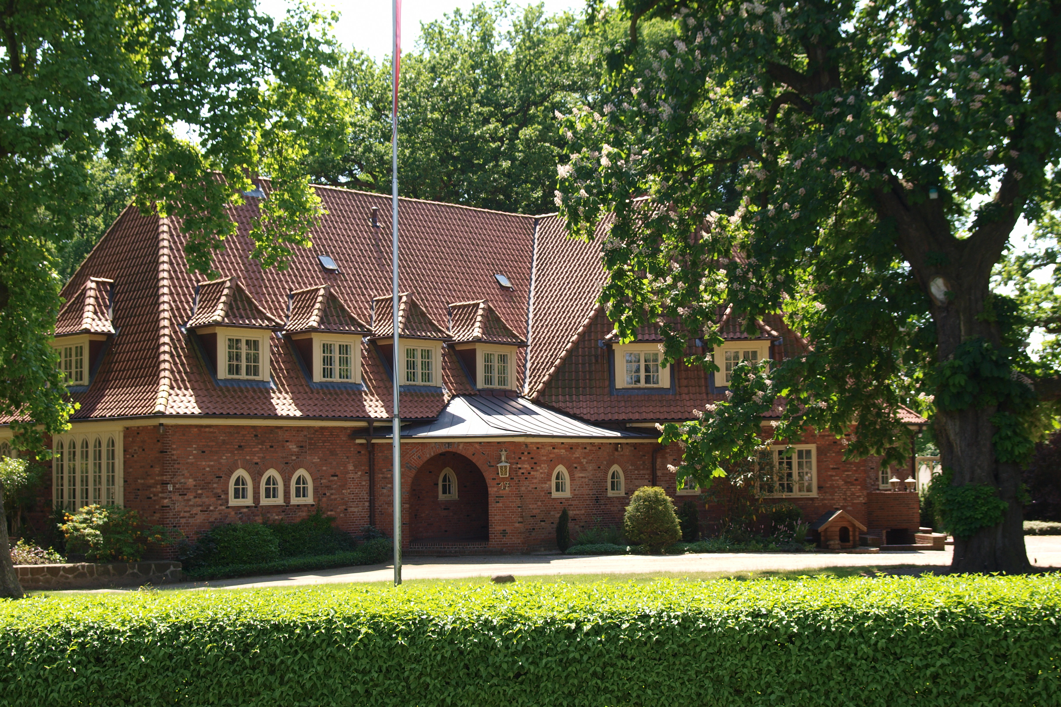 Private mansion, Hauptstraße 17, Rellingen (Kreis Pinneberg), Germany. Cultural heritiage monument.